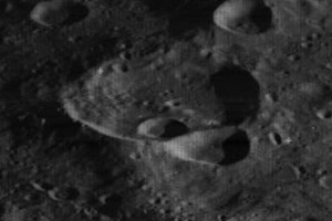 Oblique view of Kozyrev crater, on the far side of the moon, facing roughly south.